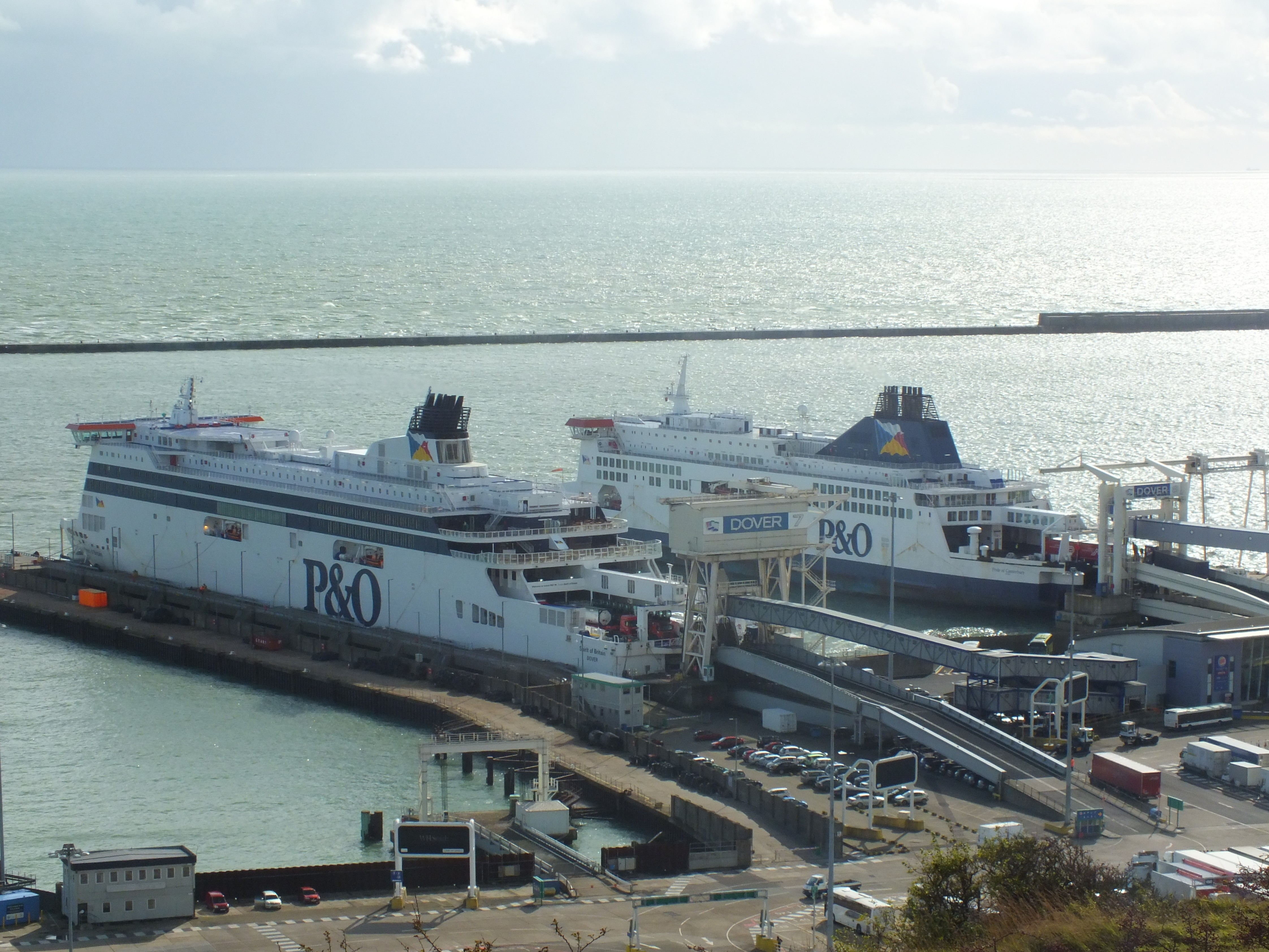 Langdon Cliffs rise 120 m, the lie to the east of Dover, heading to South Foreland. A spur directly above thePort of Dover, at the entrance to the White Cliffs Visitors Centre gives views over port and the eastern facade of Dover Castle.